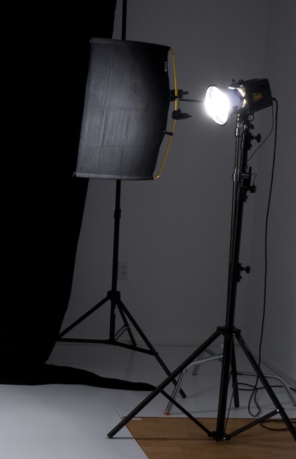 If you use this image, please credit to, (Kingsport Humor) Follow me on Tumblr: Follow me on Twitter: Set-up shot for this photo . Strobist: 2x AB800s used for this shot, one camera left, one slightly higher camera right. Both with bare 7" reflectors. Black flags were used behind lights to keep any light off of the black background. 2 white foam boards clamped to 2 stands were used to block light from causing lens flare. On set-up shot they were moved to the side to show the lights in photo. Fired via CyberSyncs.